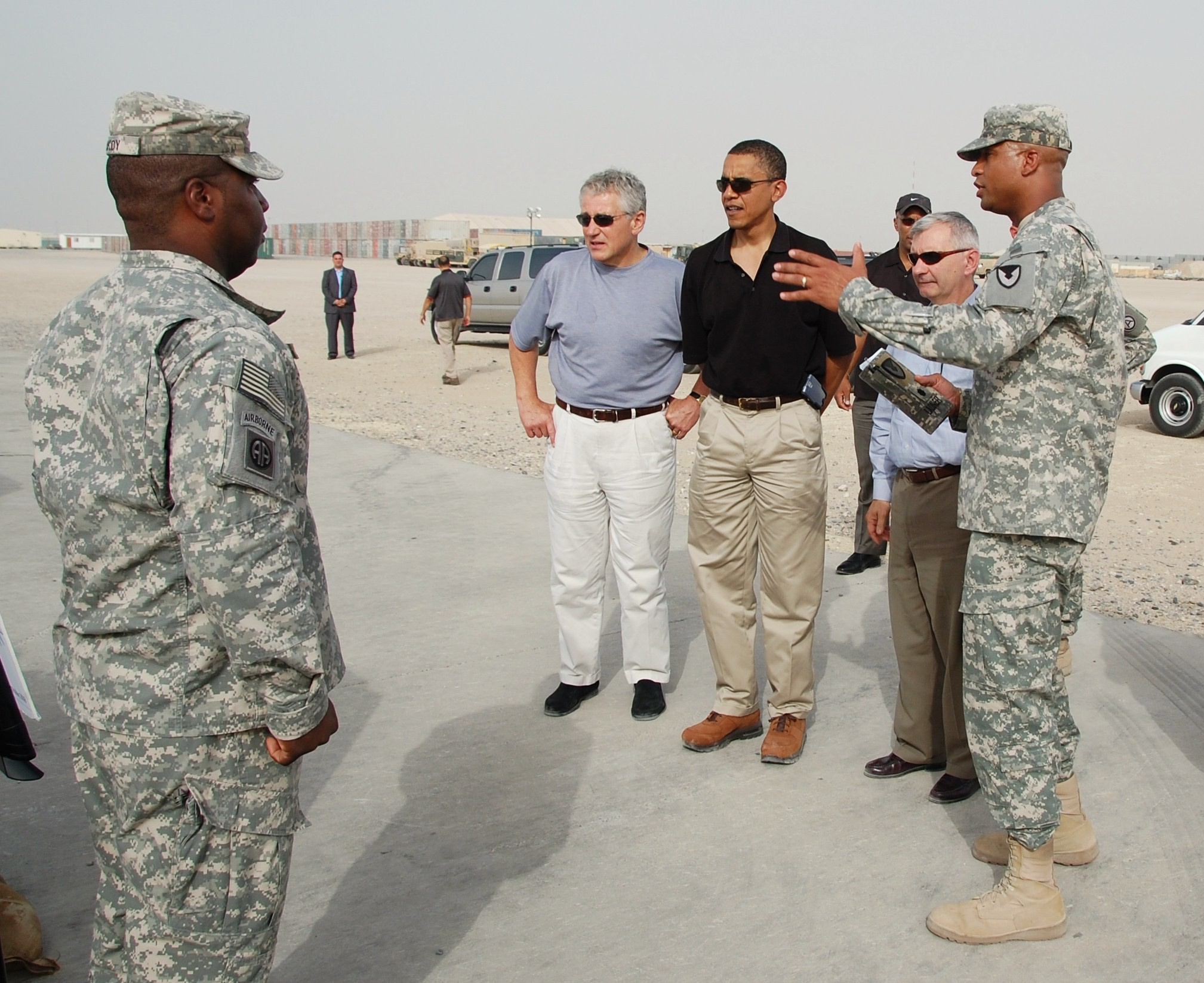 Lt. Col. Joseph E. Ladner, commander, 2nd Battalion, 401st Army Field Support Brigade, briefs (L-R) Senator Chuck Hagel, Senator Barack Obama and Senator Jack Reed about the evolution of the Humvee, as Chief Warrant Officer Eric M. McKoy, 2nd Battalion maintenance technician, waits to be introduced, July 18, 2008, at Camp Arifjan, Kuwait.